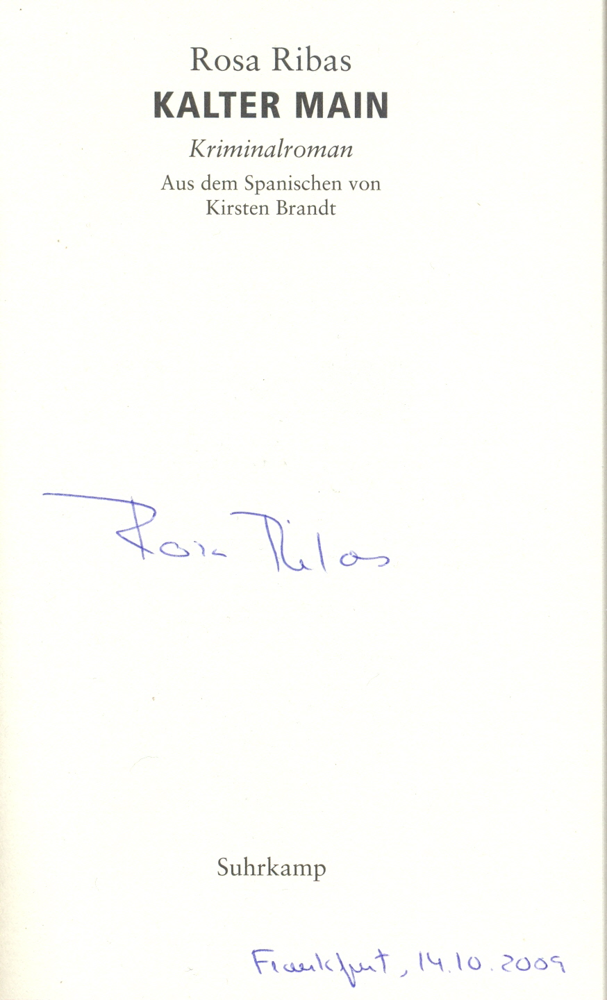 Autograph from Rosa Ribas, spain writer